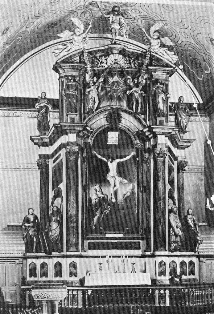 Altarpiece from Our Lady's church, Trondheim, Norway.